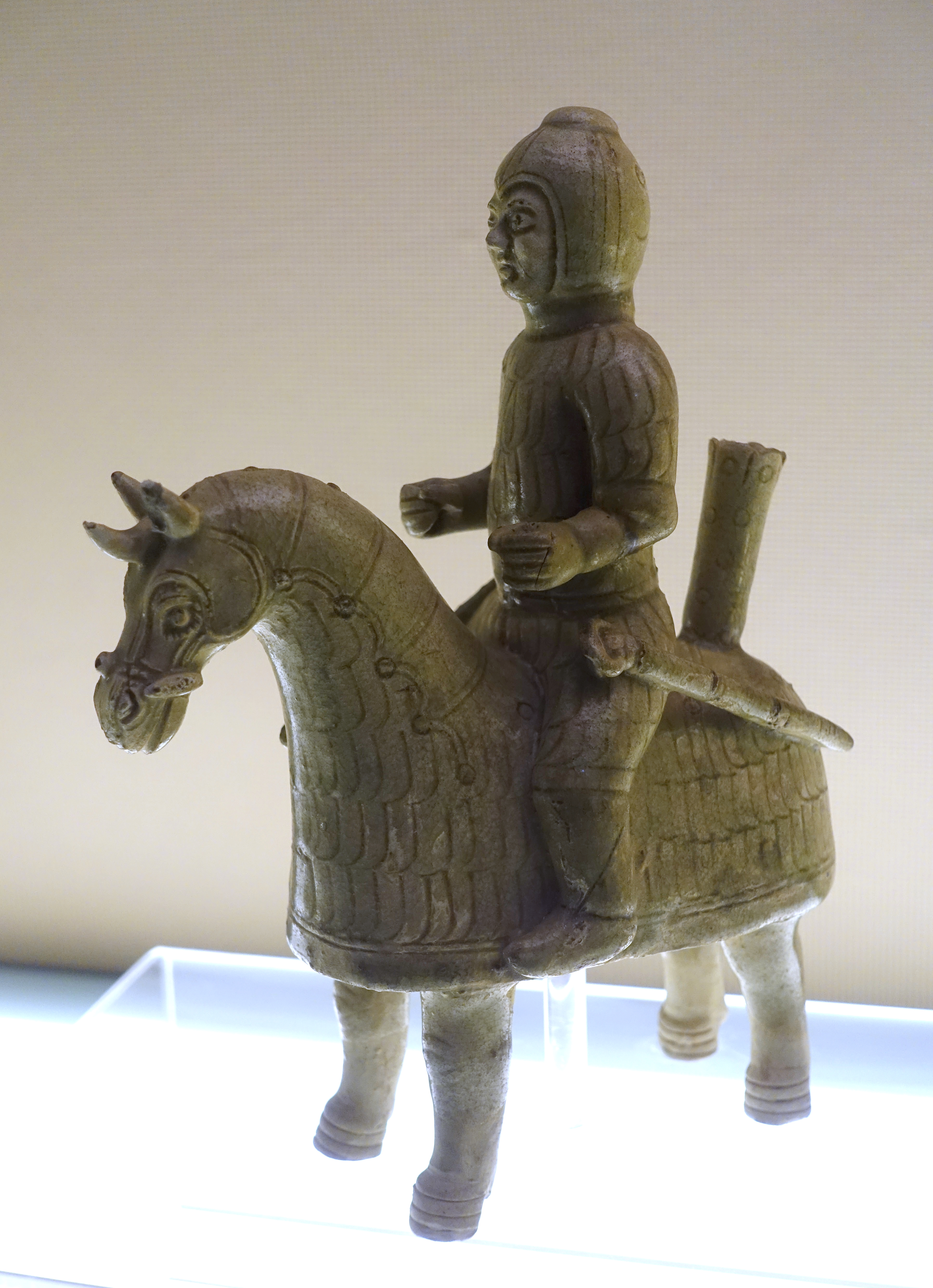 Exhibit in the Sichuan Provincial Museum (四川省博物院), also known as the Sichuan Museum, 251 Huanhua S Road, Chengdu, Sichuan, China. This work is old enough so that it is in the public domain.